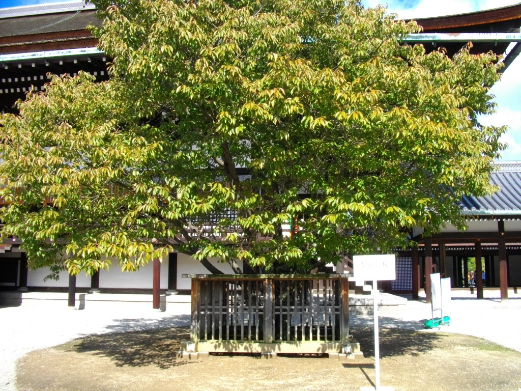 Sakon no Sakura